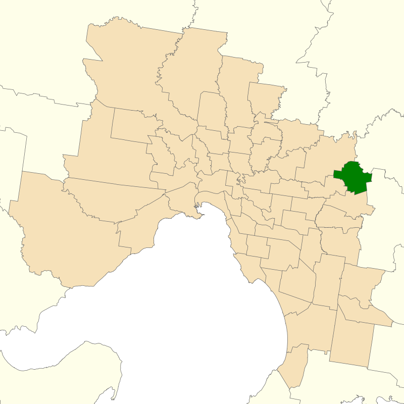 Location of the Victorian electoral district of Croydon (dark green) in the Greater Melbourne area.